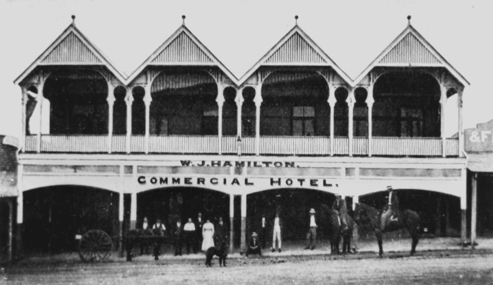 Commercial Hotel at Nambour, ca. 1917. Proprietor: W. J. Hamilton.